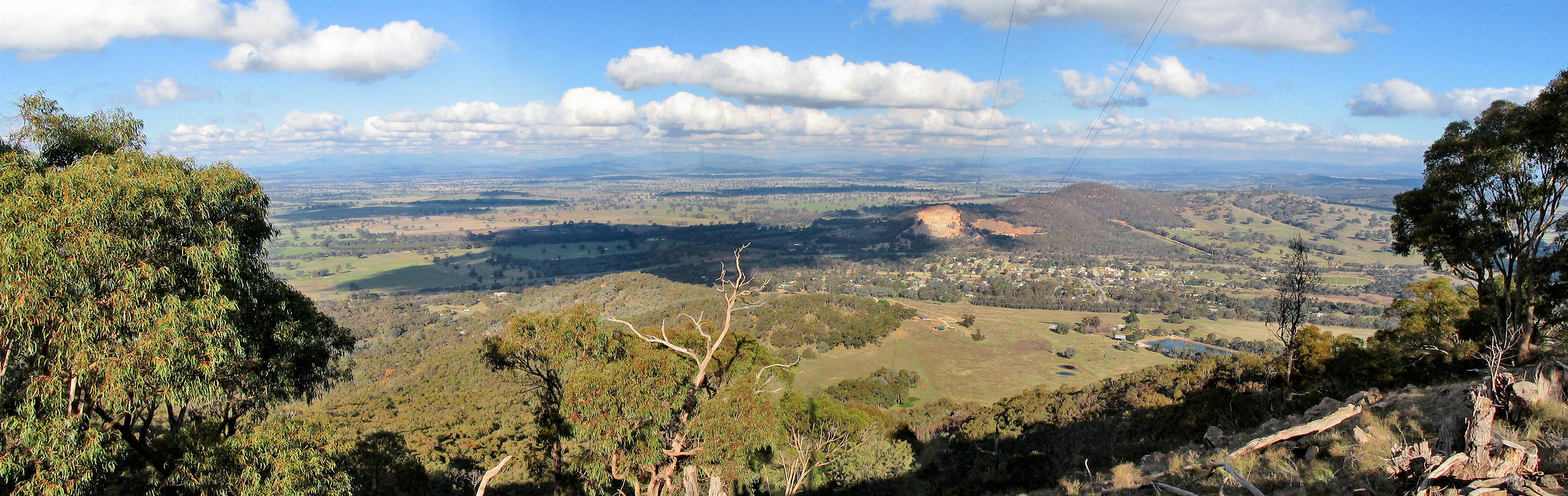 Sep 2005 - Panoramic view looking south-east from the Ned Kelly Gang lookout on Mt Glenrowan, towards the town of Glenrowan, Victoria, Australia SOURCE INFO Original images for pano were captured using a CANON A75 PowerShot 3.2MP digital compact point & shoot camera. PROCESS INFO Panorama created by stitching together 3 x standard 6x4 sized hand-panned images using Microsoft Image Composite Editor (ICE). Post-processed using Adobe Photoshop Creative Suite 8.0.